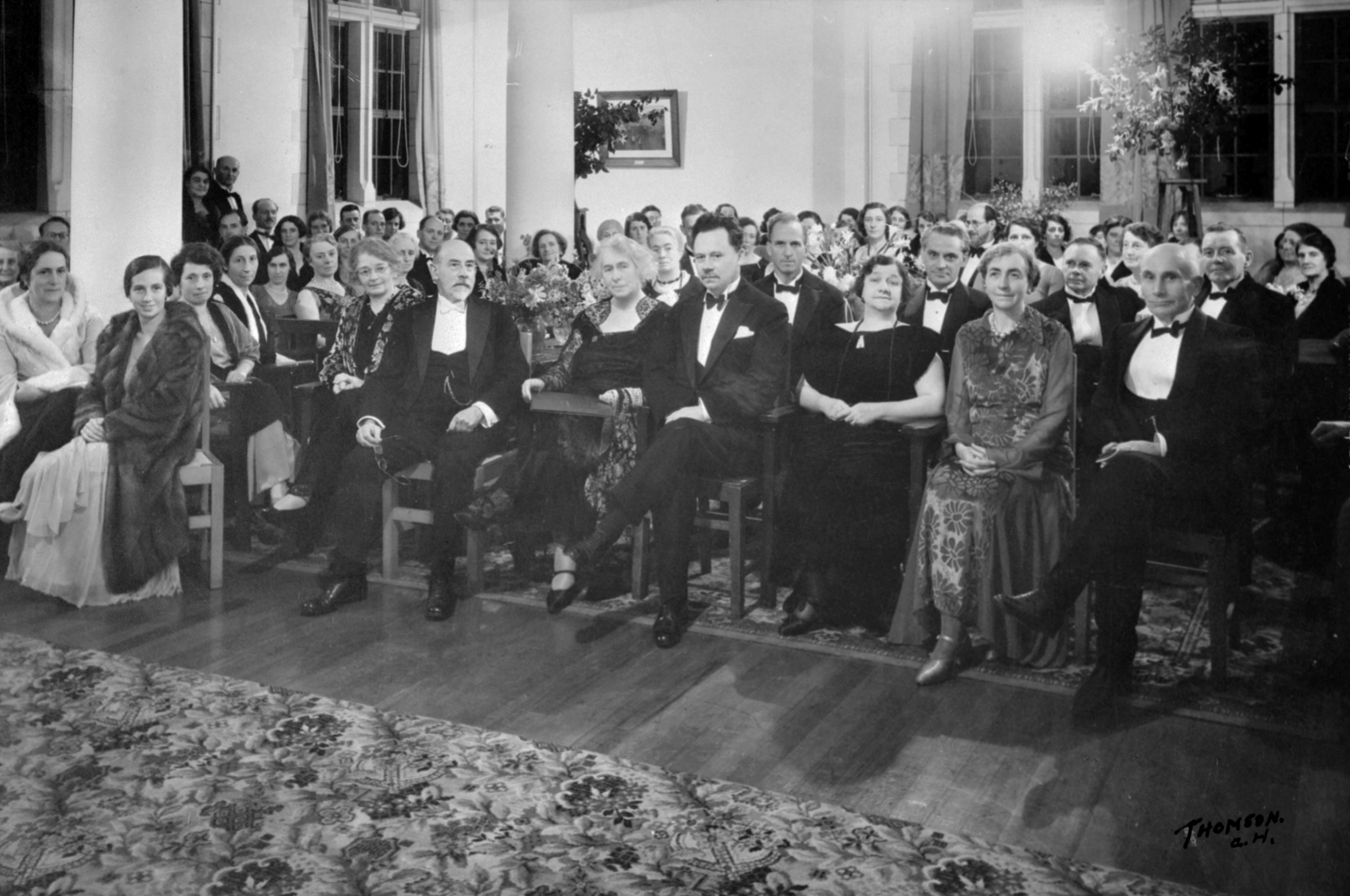 A meeting of the Society for Imperial Culture (Christchurch Branch). Mabel Shelley is seated third from left. Rosa Sawtell and James Hight are seated in the centre of the front row. James Shelley is seated in the second row, between the two women at the right and of the front row. Photograph taken between 1921 and 1935 by Thomson of Christchurch